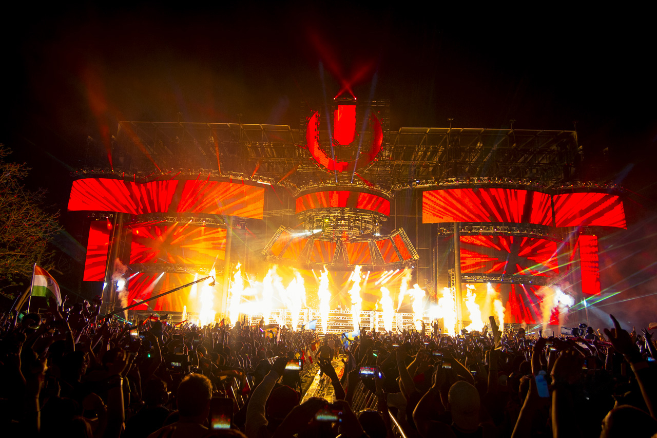 Parazhit Report at Ultra Music Festival Miami